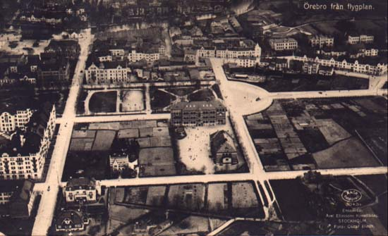 Stora Mobacken, Örebro, aerial photograph from the 1920s.